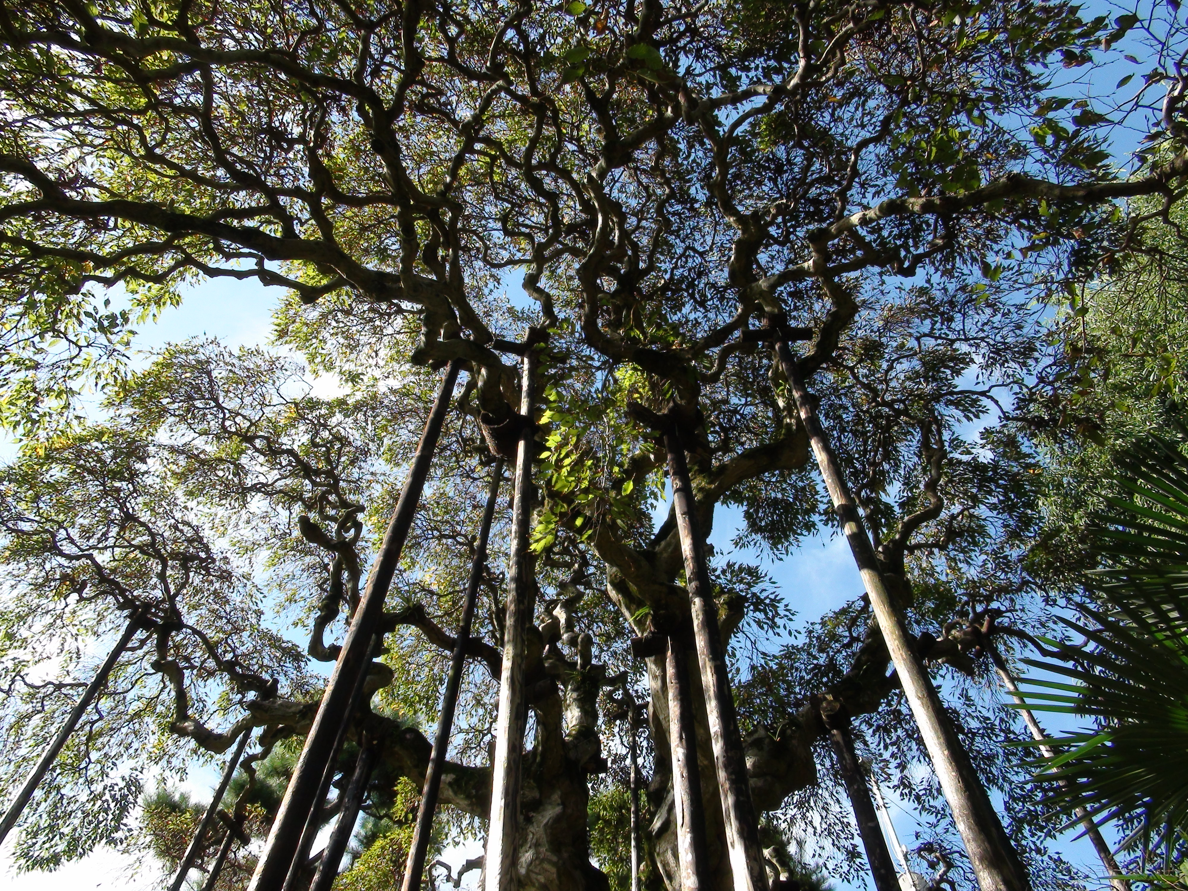 Sajigami shrines Shidare-Akashide